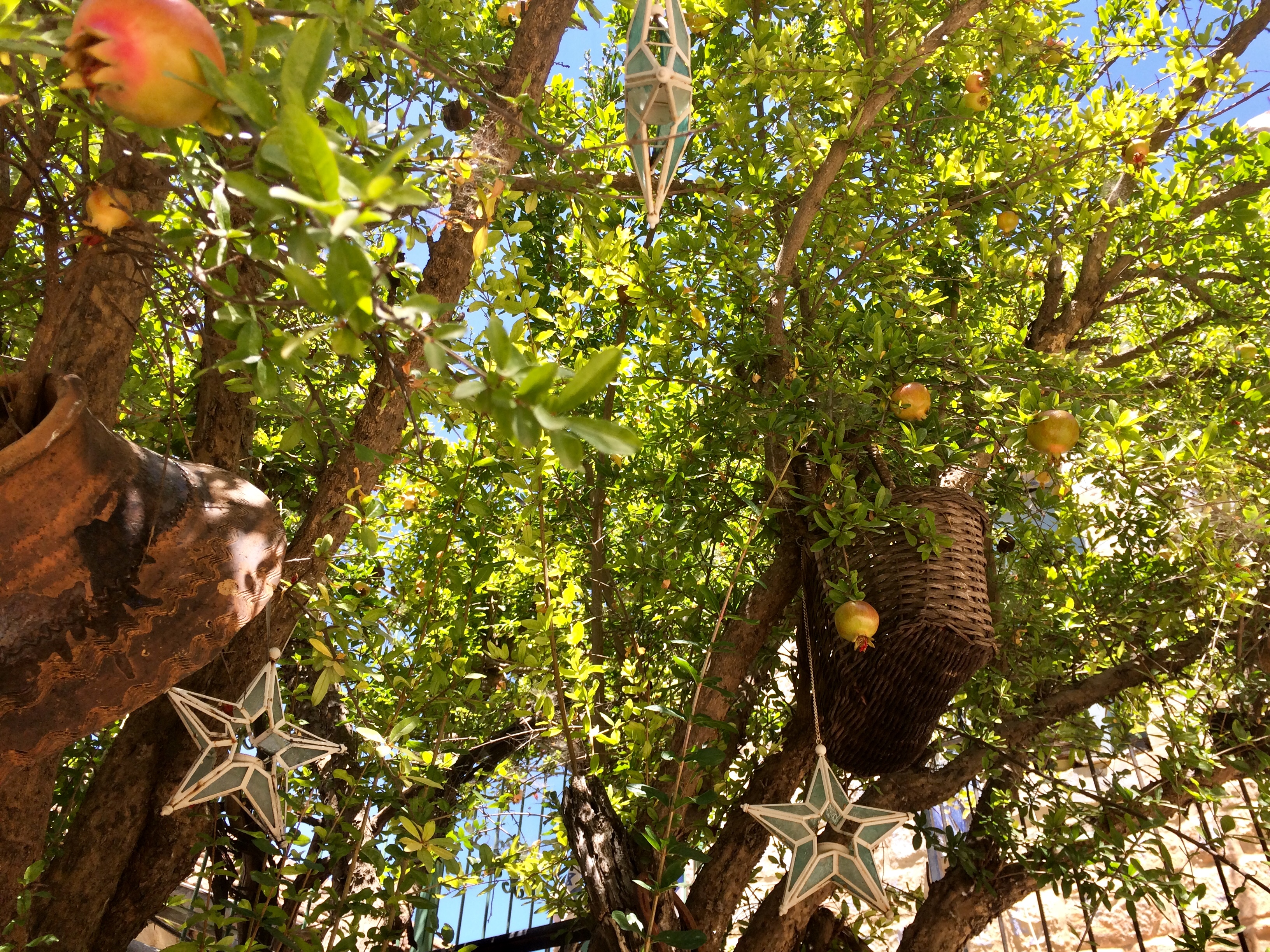 A pomengranate tree in the courtyard of the Beit Castel gallery in Safed, Israel.